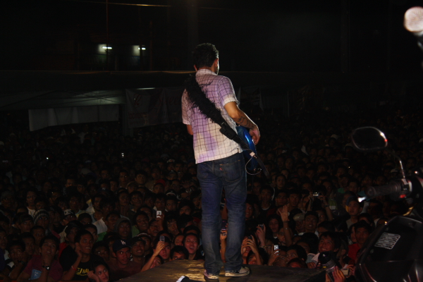 nathan crowd